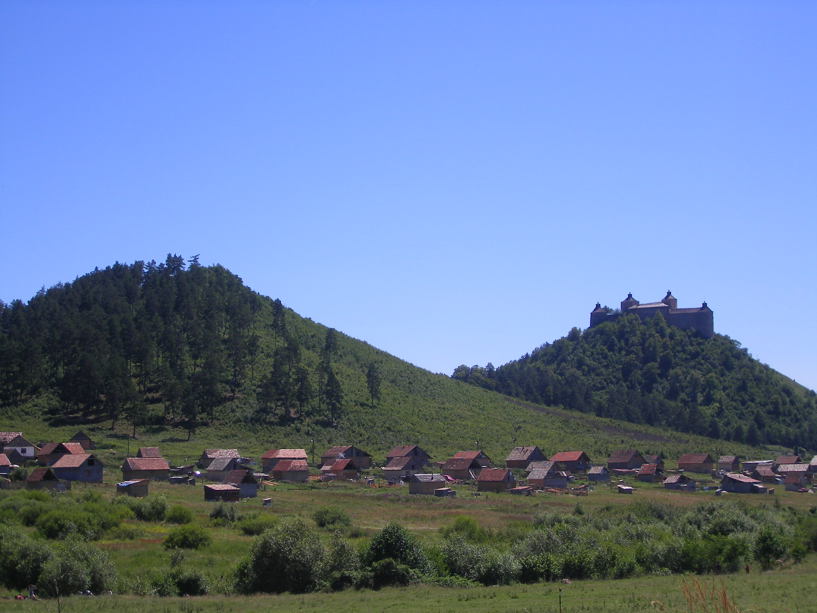 Krásnohorské Podhradie - roma colony